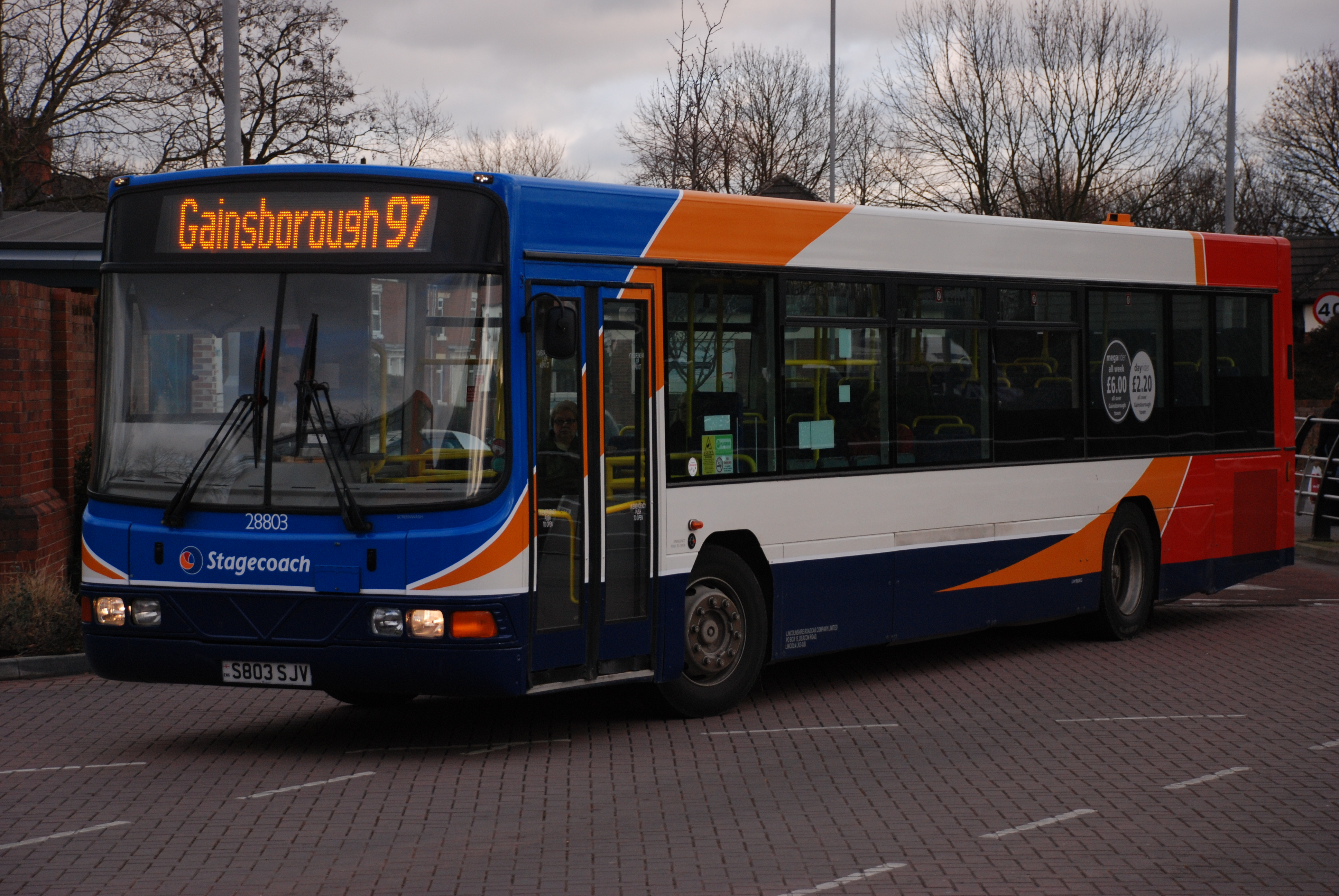 Stagecoach East Midlands Scania / Wright 28803 arriving in Retford bus station, February 2011. This bus was new to Lincolnshire RoadCar before the Stagecoach takeover.